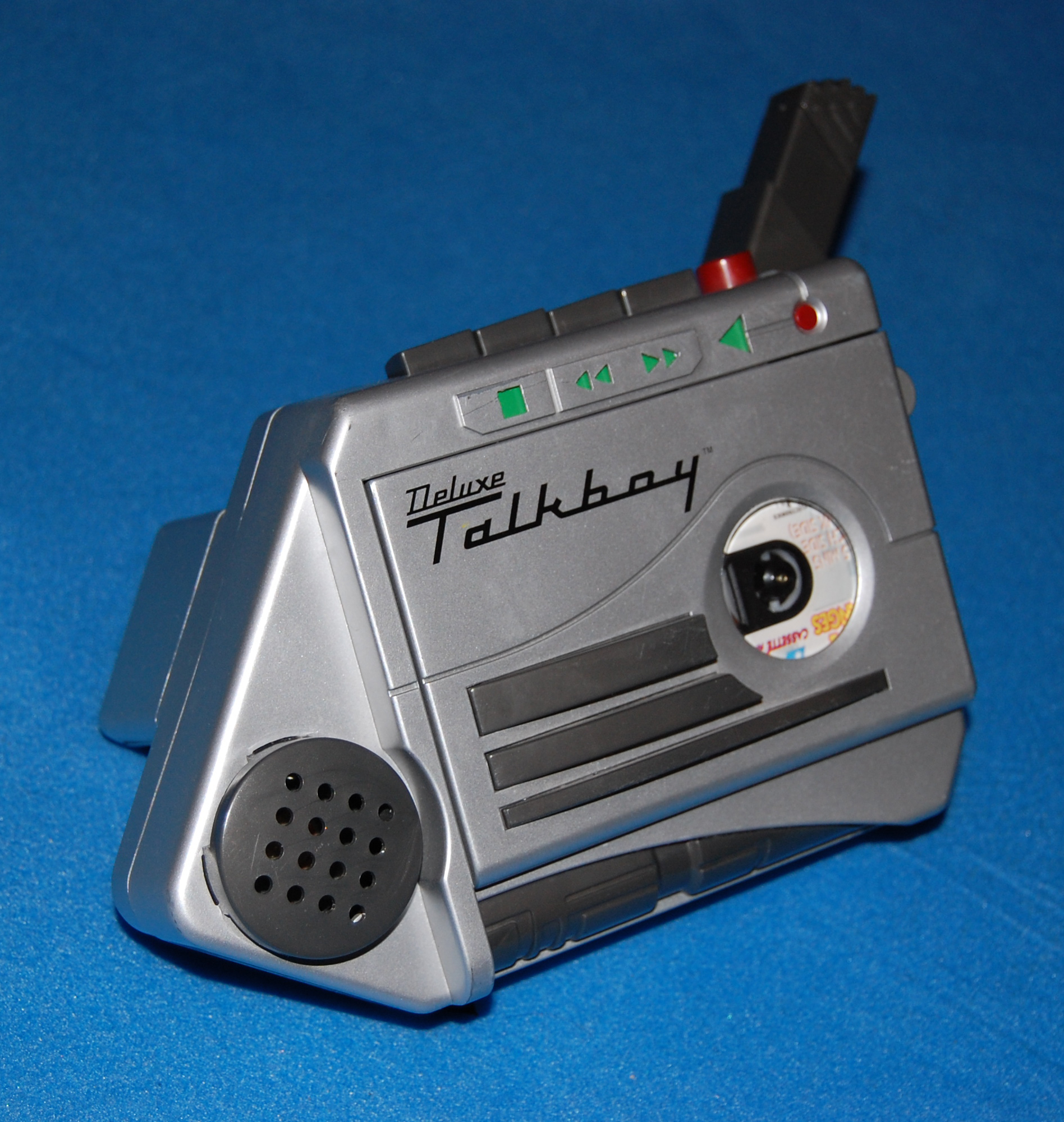 Talkboy portable variable speed cassette player and recorder manufactured by Tiger Electronics.